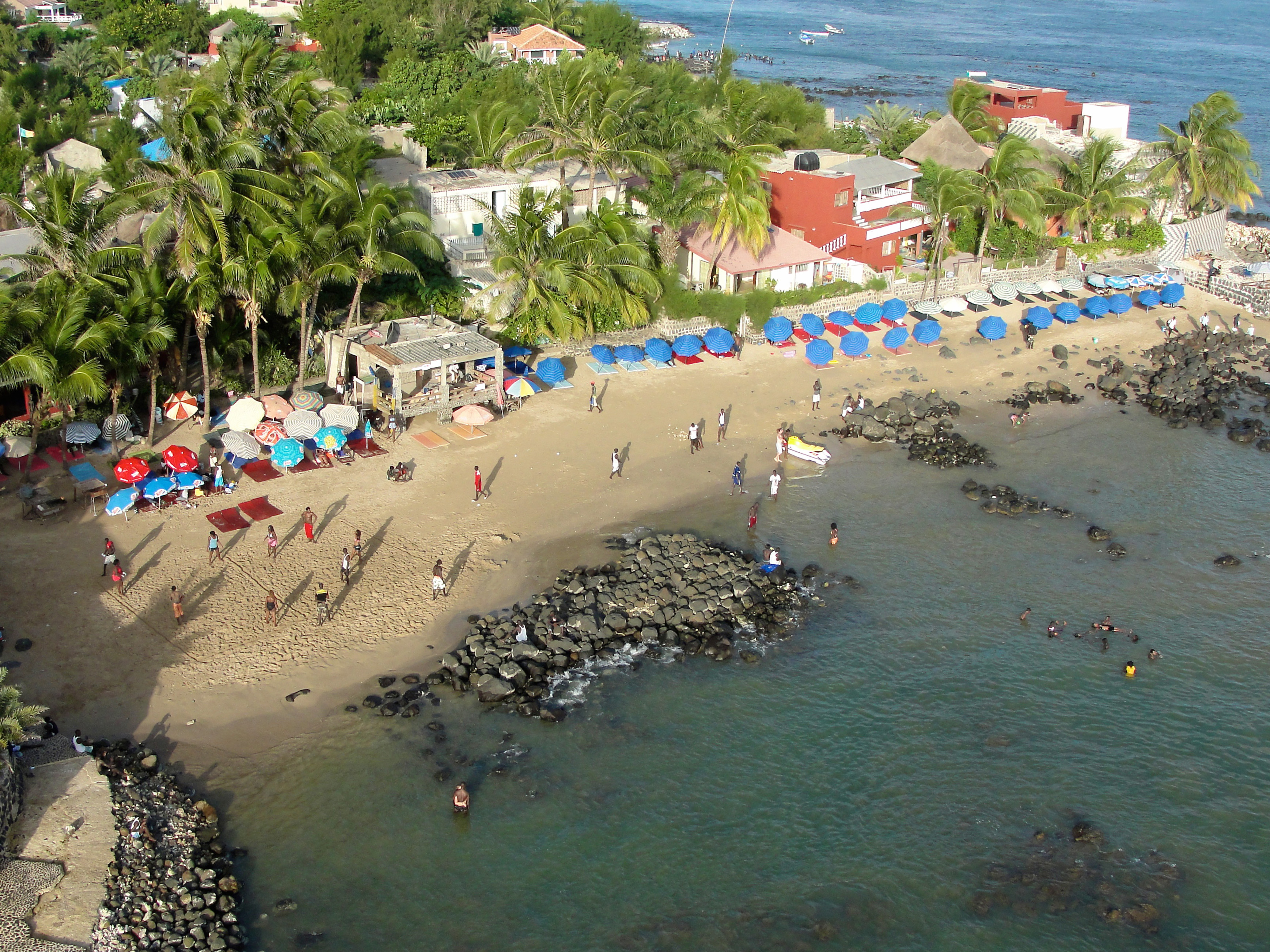 La plage de Ngor (Dakar, Sénégal). We spent a Saturday afternoon here. Image was captured by a camera suspended by a kite line. Kite Aerial Photography (KAP) Flow Form 16